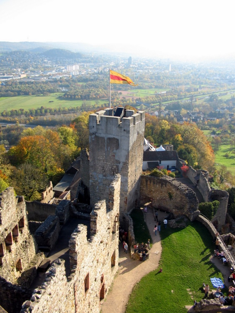 View from tower of castel ruin Roetteln near Loerrach, Germany. Own photo, taken 29. October 2005 Harald Kucharek